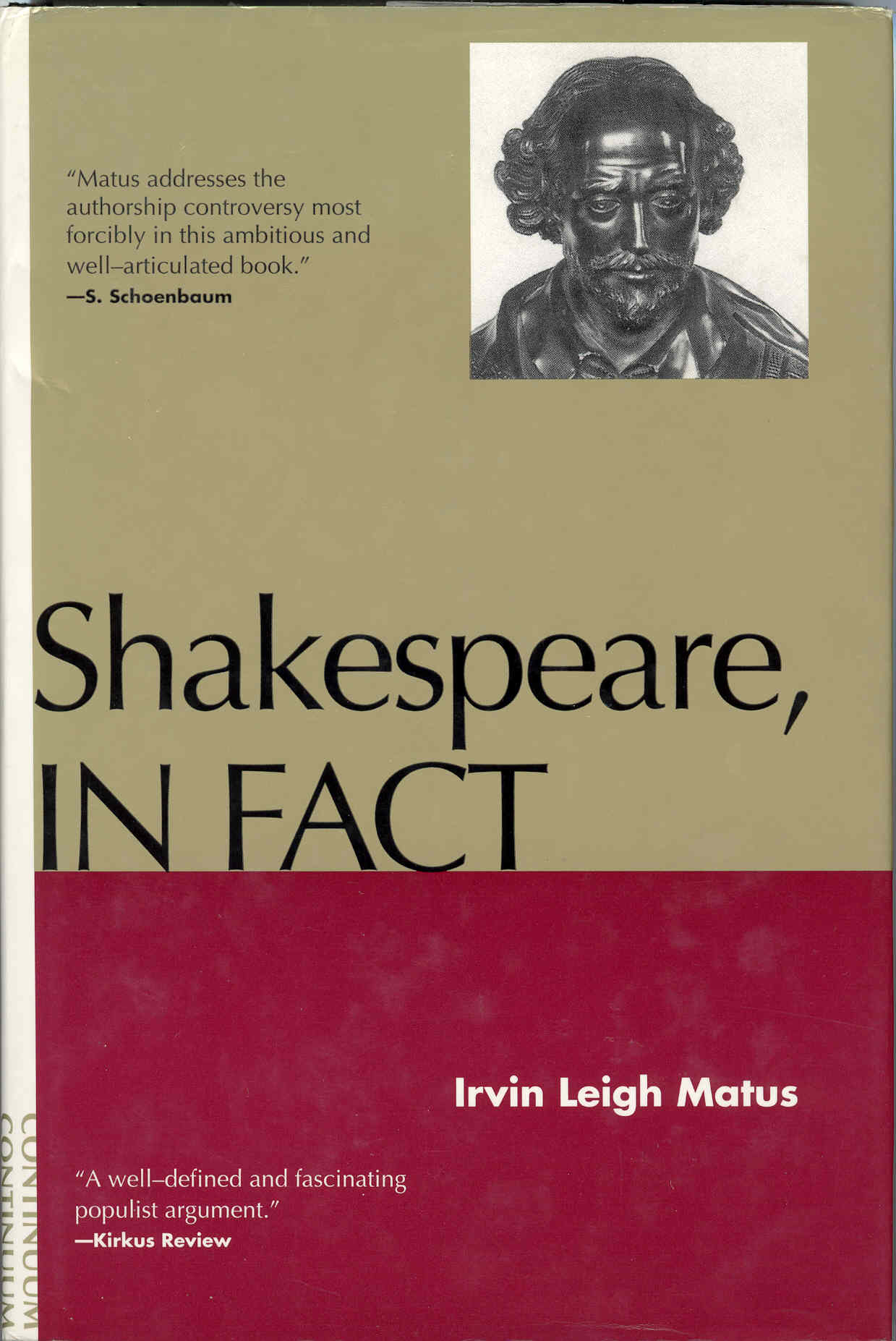 The cover of the book Shakespeare, In Fact, by Irvin Leigh Matus.